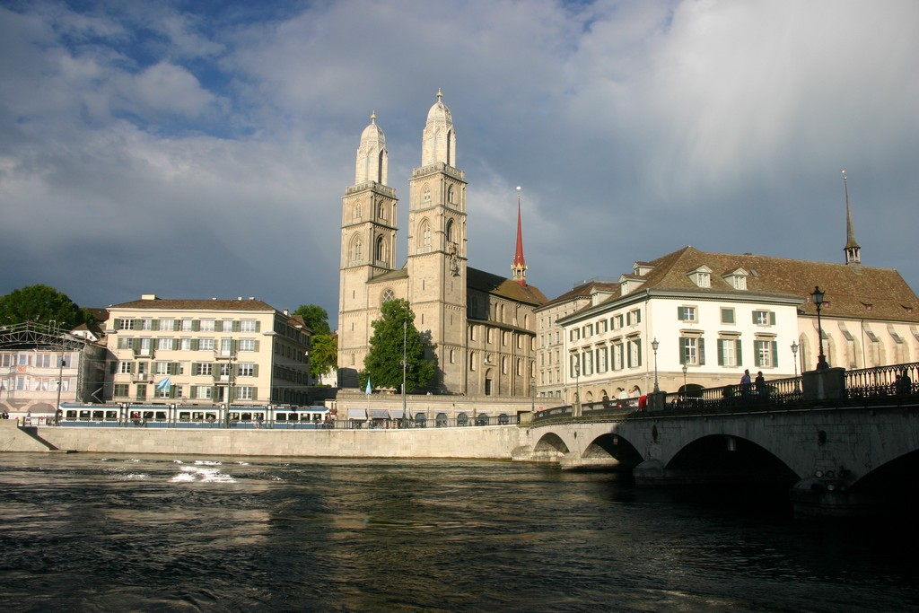 Zurich city, Switzerland